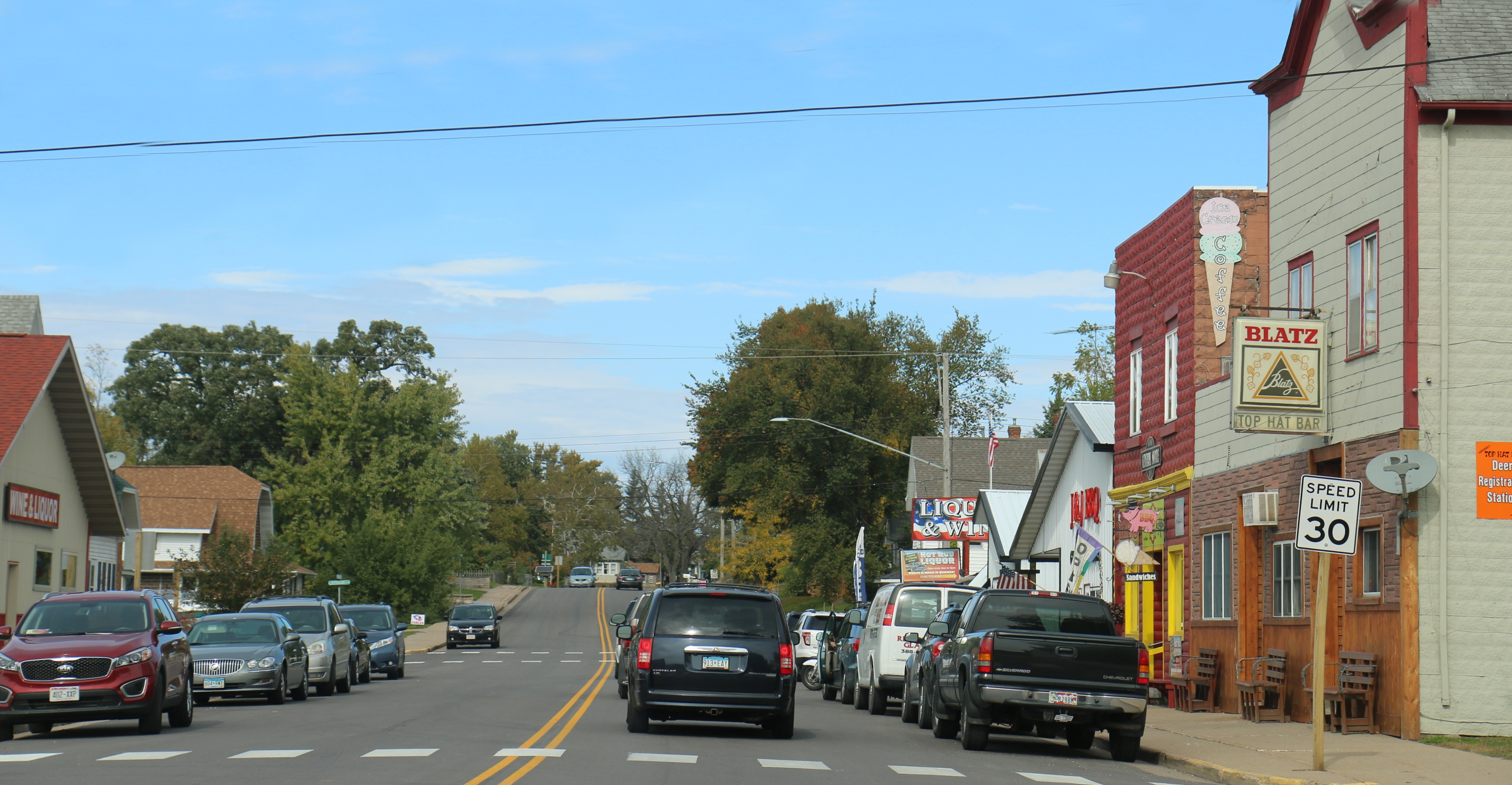 Downtown Nelson, Wisconsin on WIS35.